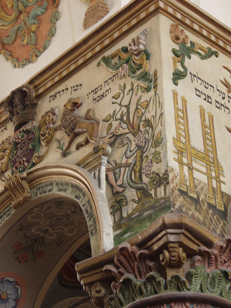 Synagogue in Łańcut